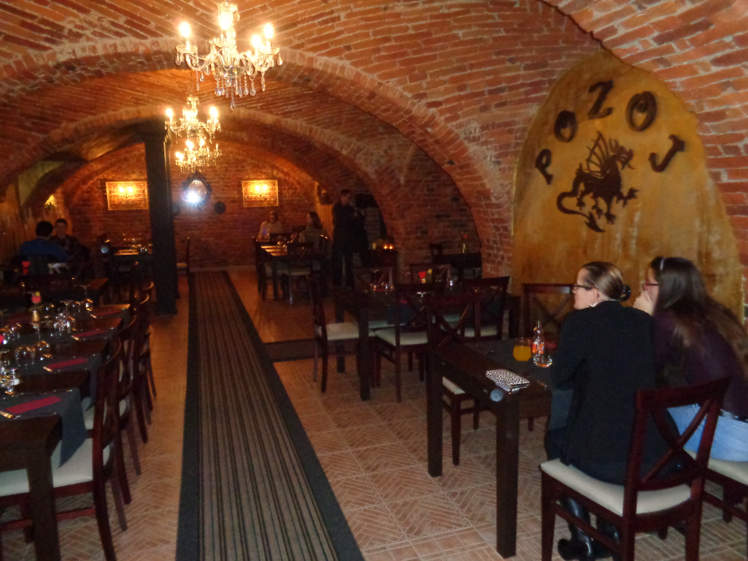 "Pozoj" Restaurant in Čakovec, Međimurje County, Croatia